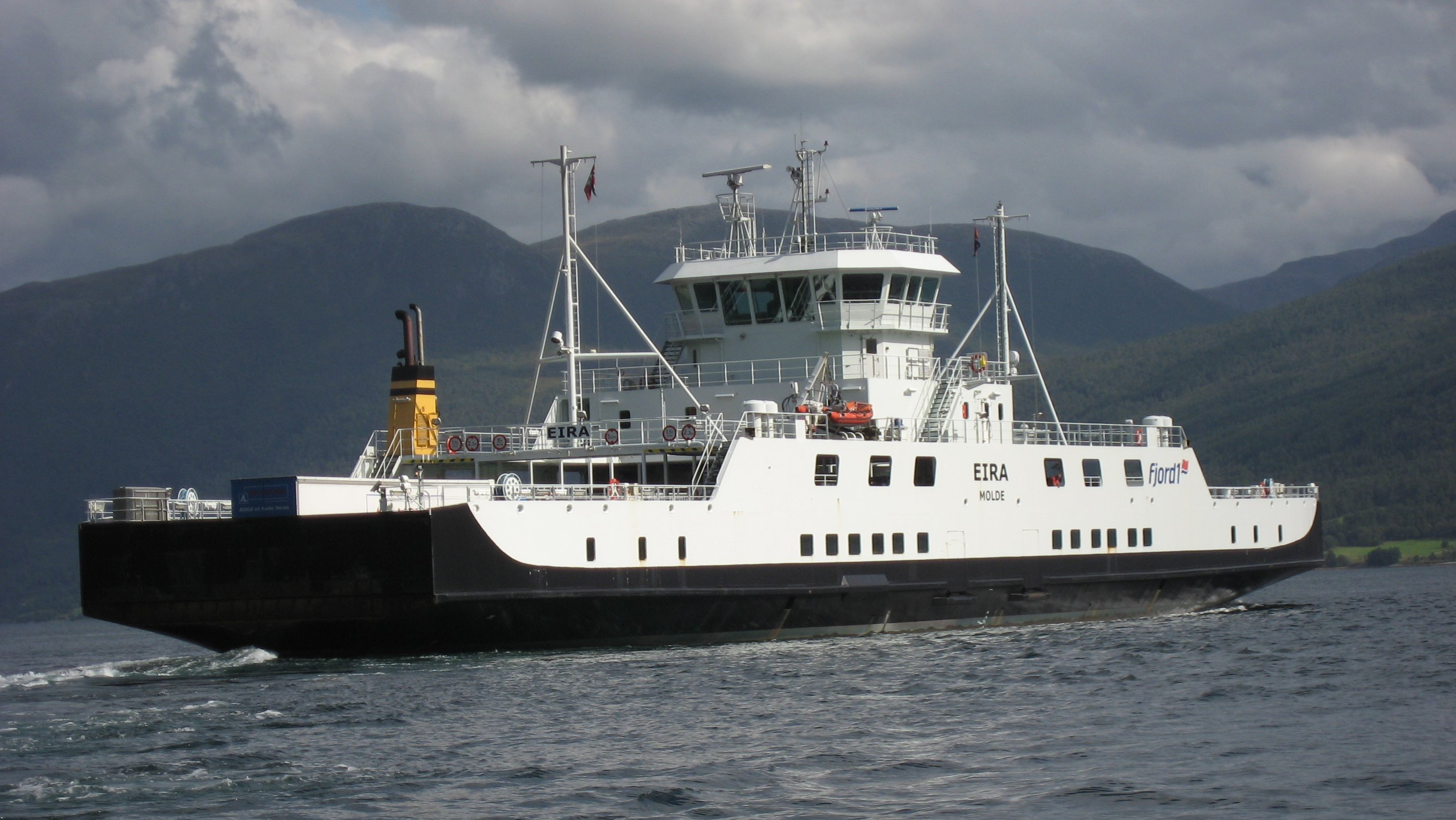 Norwegian car ferry MF Eira (Fjord1 MRF) leaves Sølsnes in Møre og Romsdal.